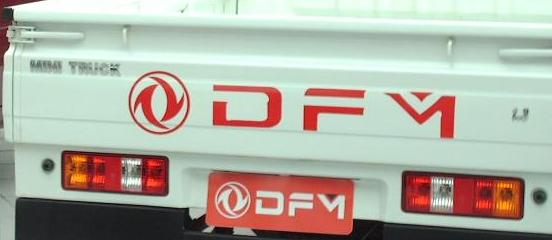 Dongfeng Motor logo as seen on the back of their Mini Truck.